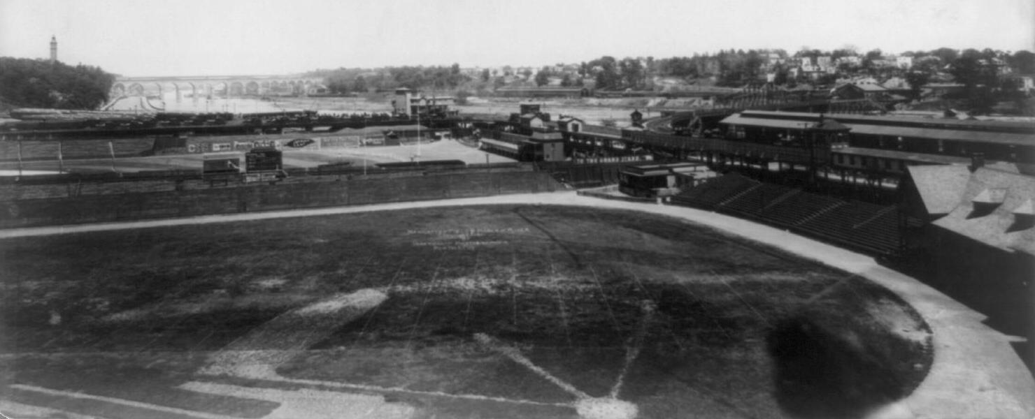 This is a photo of Manhattan Field taken around 1901. I got it from the Library of Congress online collection. Note the diamond, the grid lines, and the running track, as the field was being used for a variety of (amateur) sports by then.